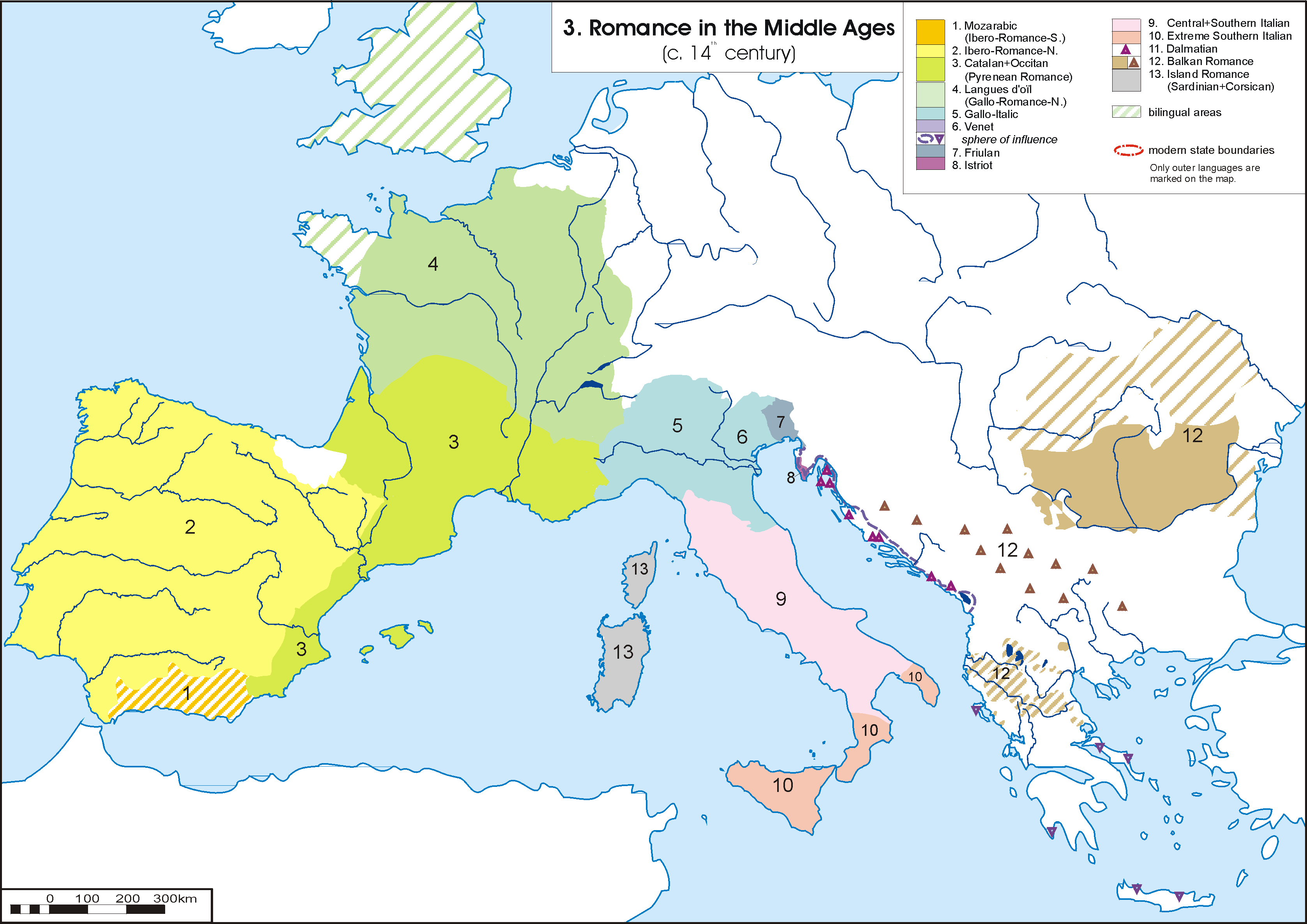 Approximate area of Romance languages in Europe circa 14 c. AD.